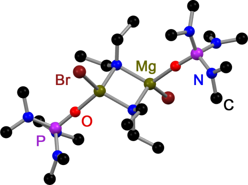 Solid state structure of Me2N3PO Hauser Base